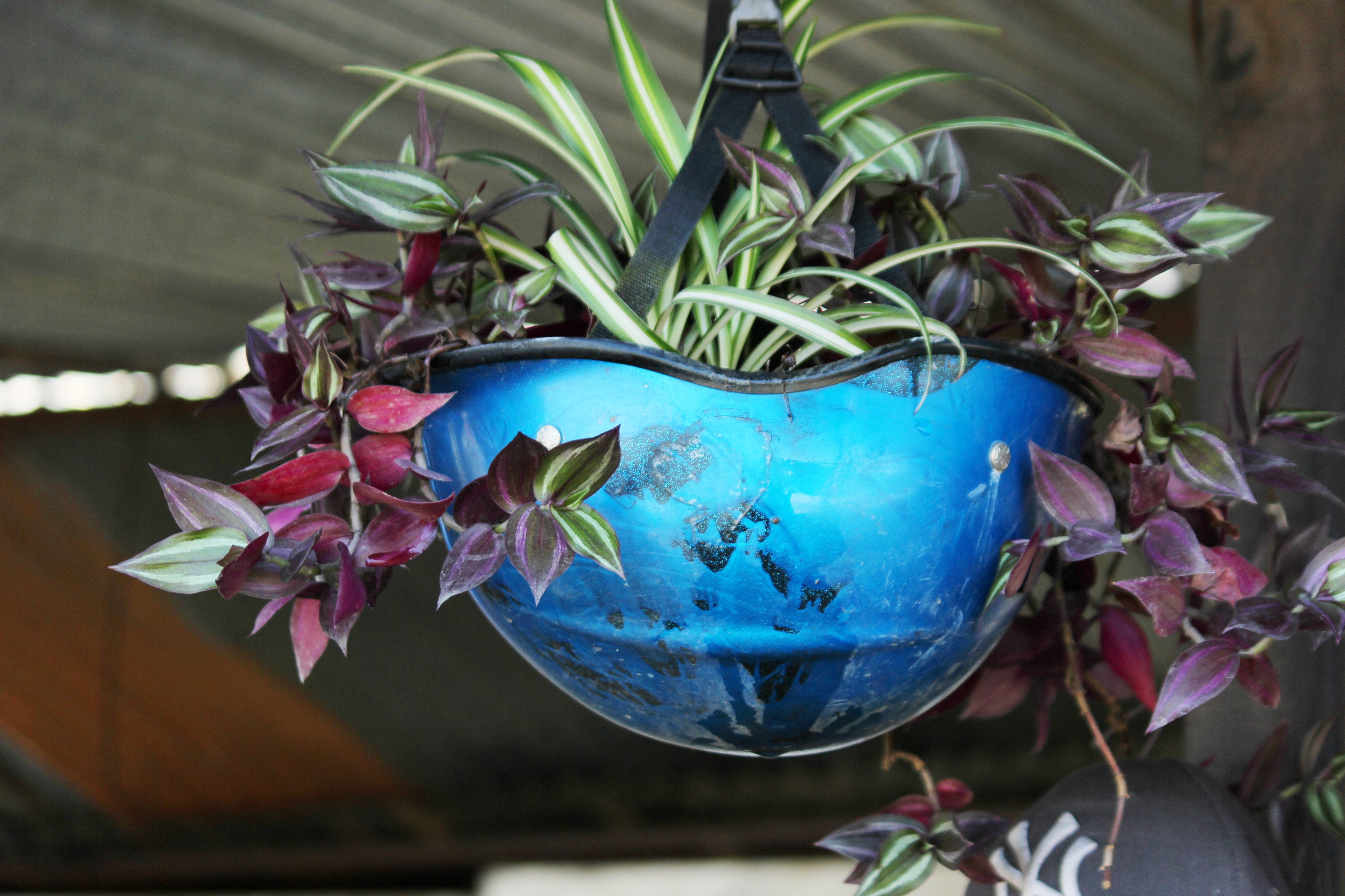 Reuse of an old helmet